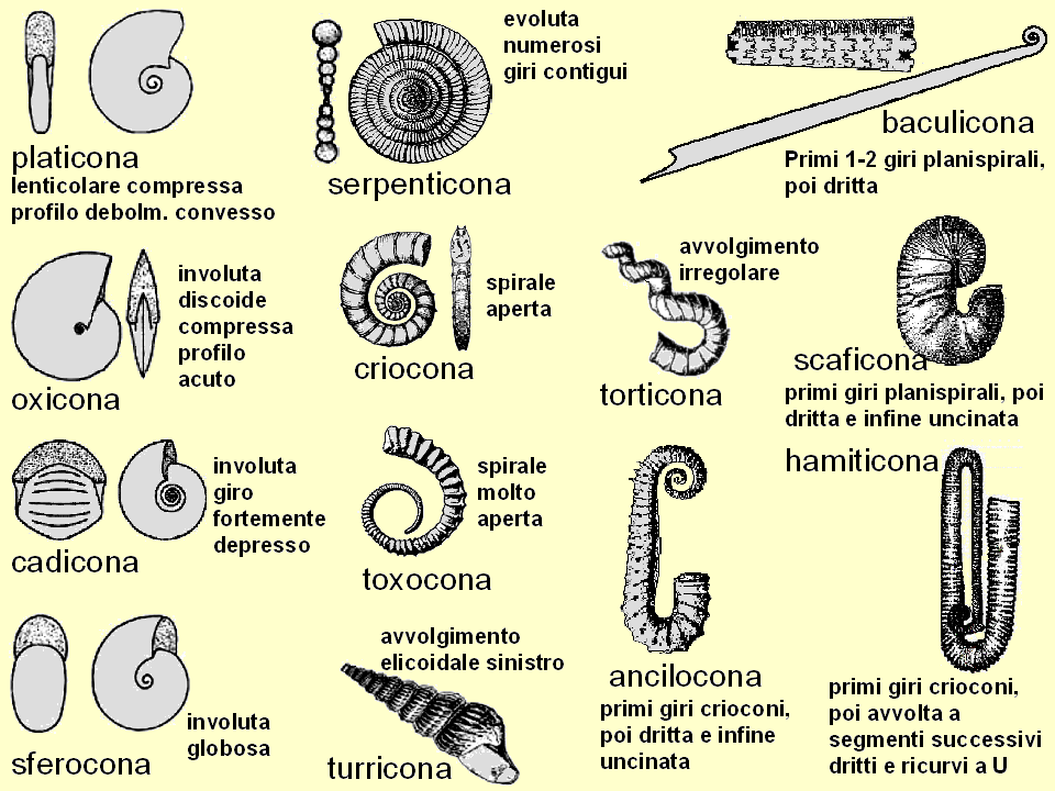 main types of ammonite shell. text in italian